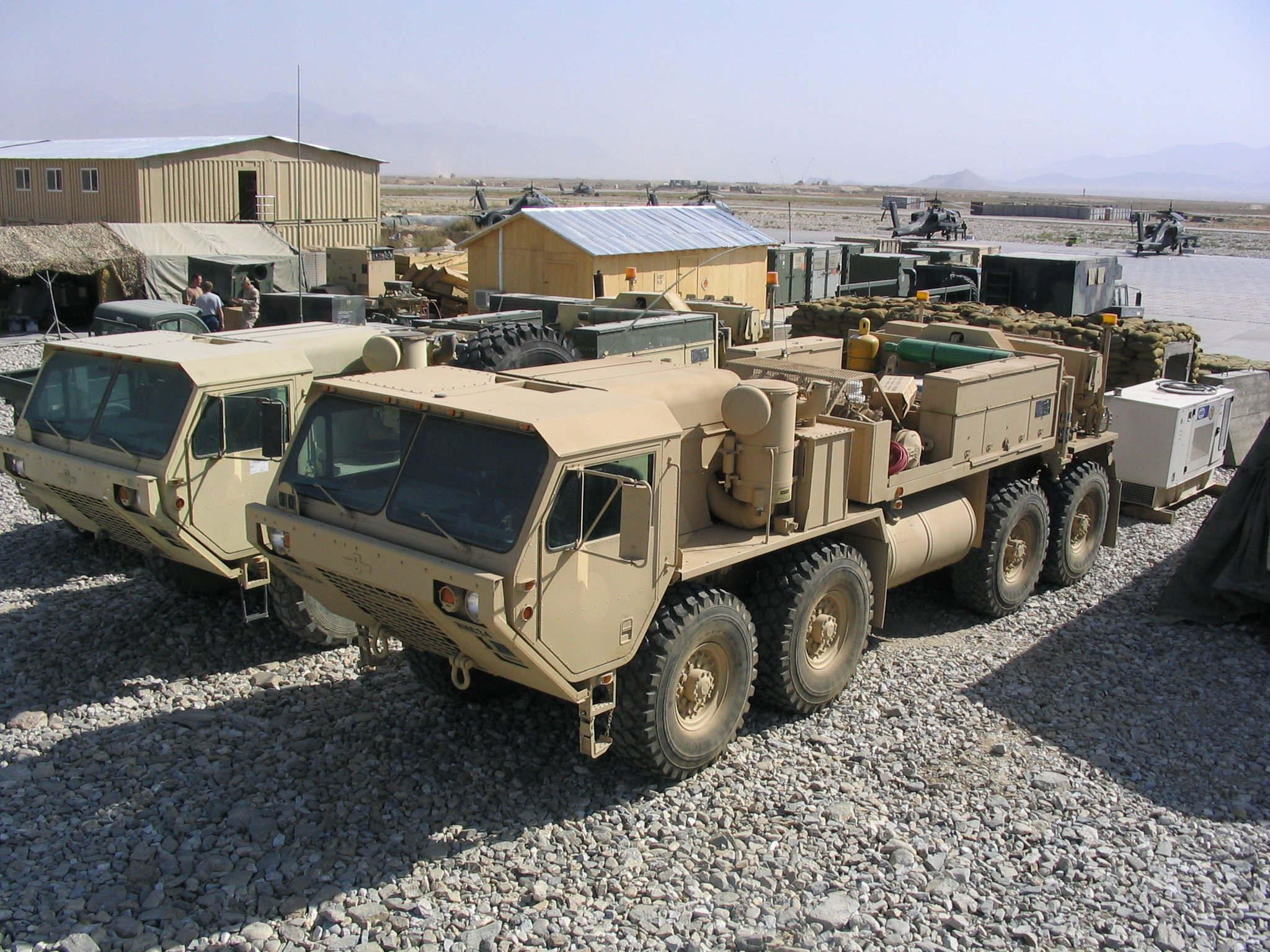 Two M984 HEMTT wreckers. Photo 03/04 tour at Bagram Airfield in Afghanistan. HHC 1-130th ARB BN NCARNG.